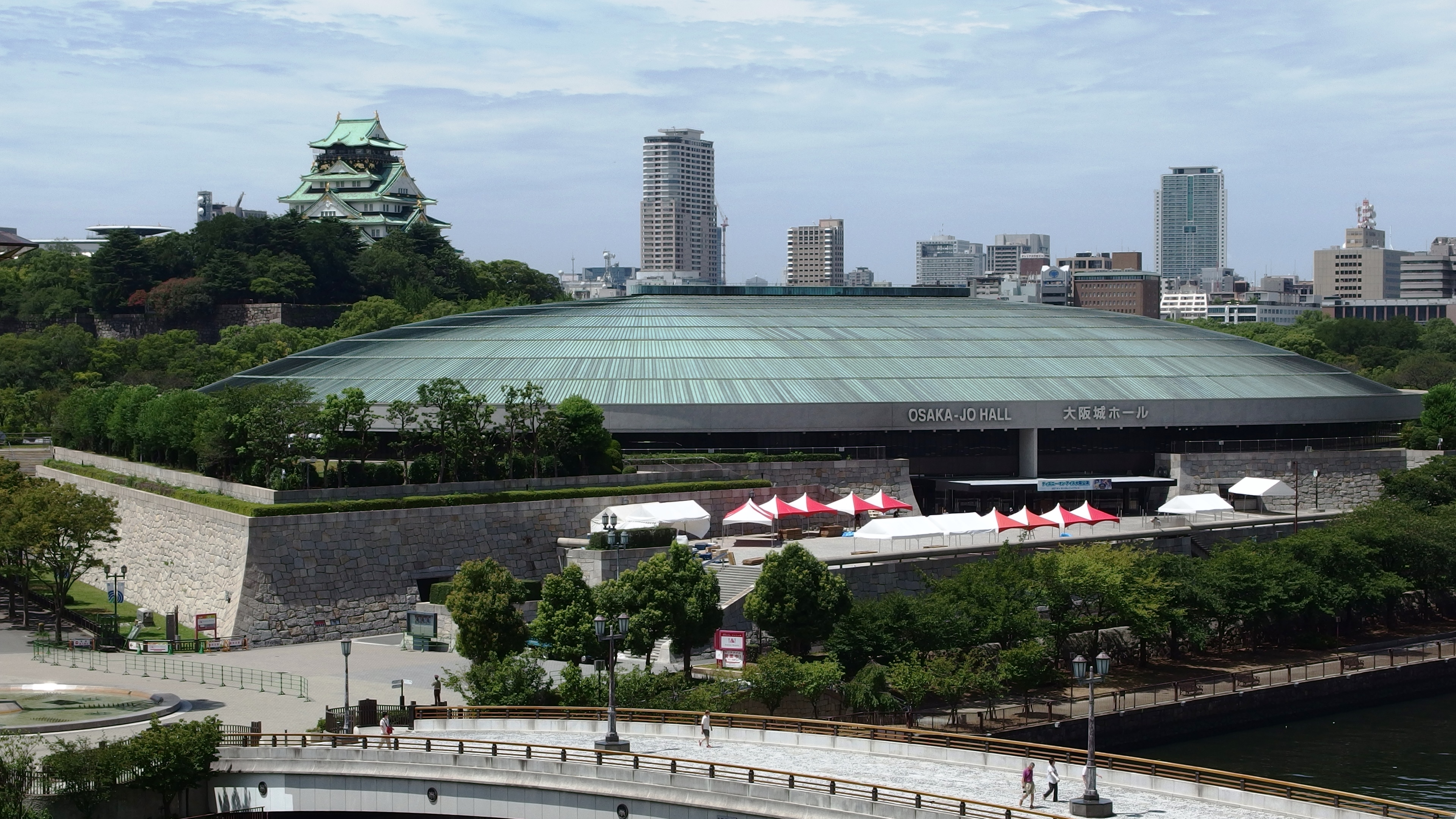 Osaka-jō Hall, Osaka, Osaka Prefecture, Japan